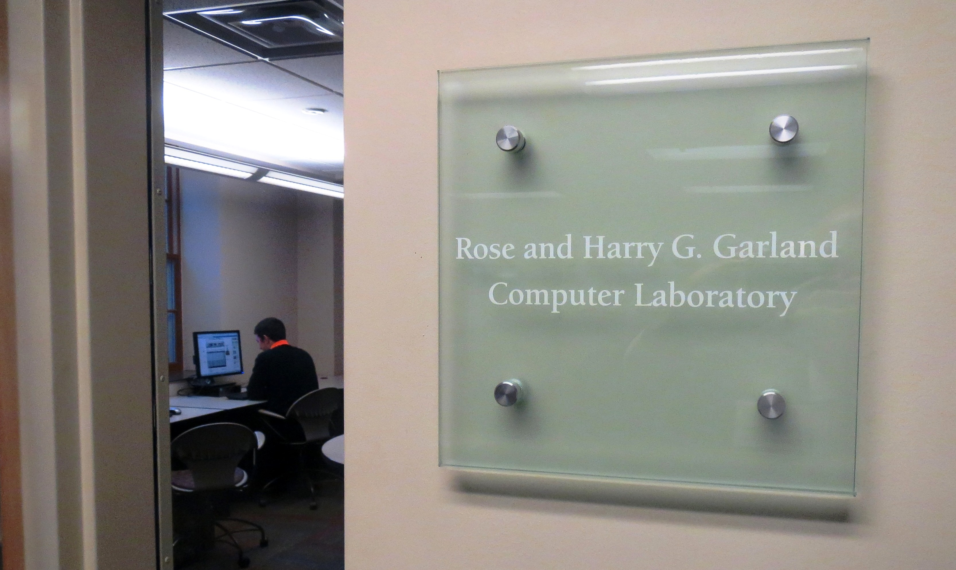 Rose and Harry G. Garland Computer Laboratory at Kalamazoo College (2013)